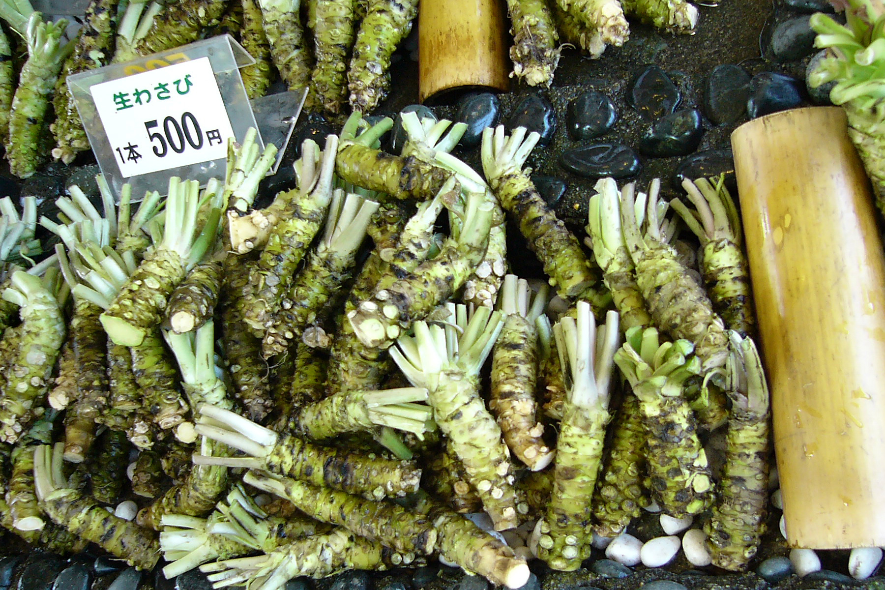 Daio Wasabi Farm ,Azumino, Nagano prefecture, Japan